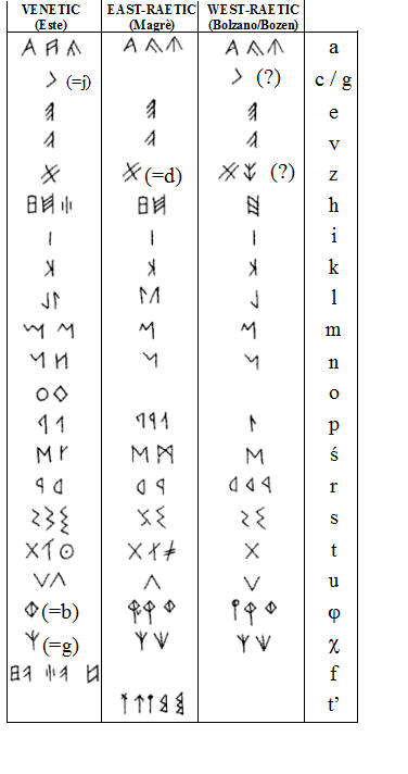 Venetic and Raetic alphabets